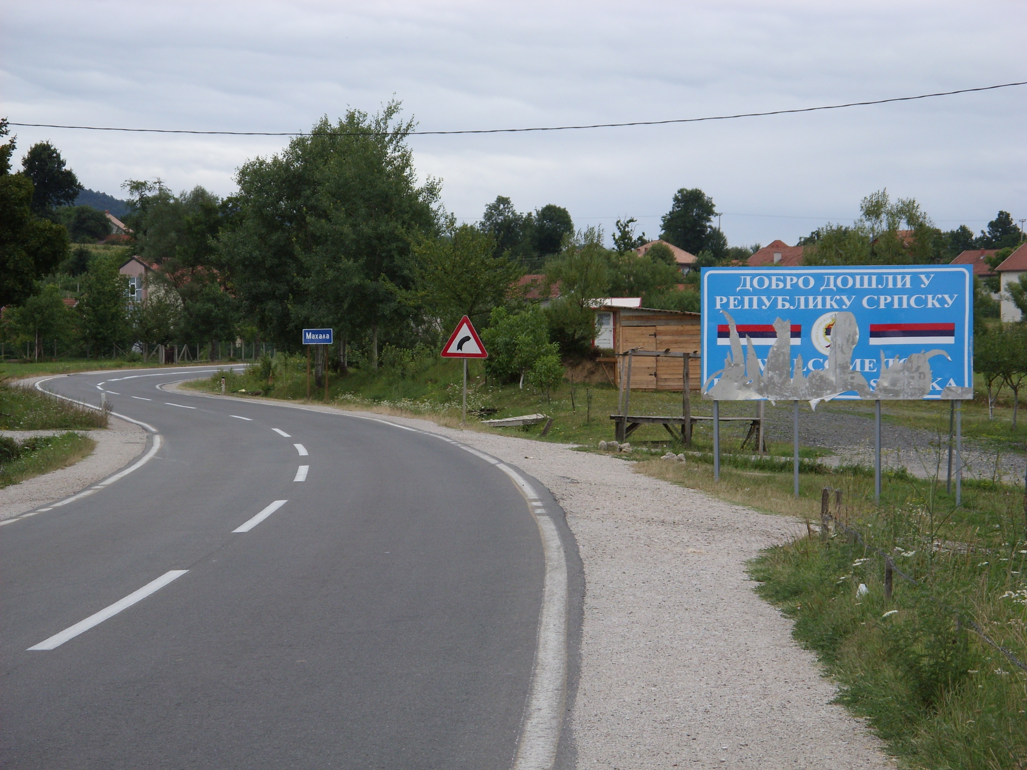 Inner-Bosnian border - Entrance to "Republika Srpska" near Mahala between Kalesija and Zvornik. Hornjoserbsce: Nutřkowna bosniska hranica - Zajězd do "Republiki Srpskeje" blisko Mahaly mjez Kalesiju a Zvornikom.